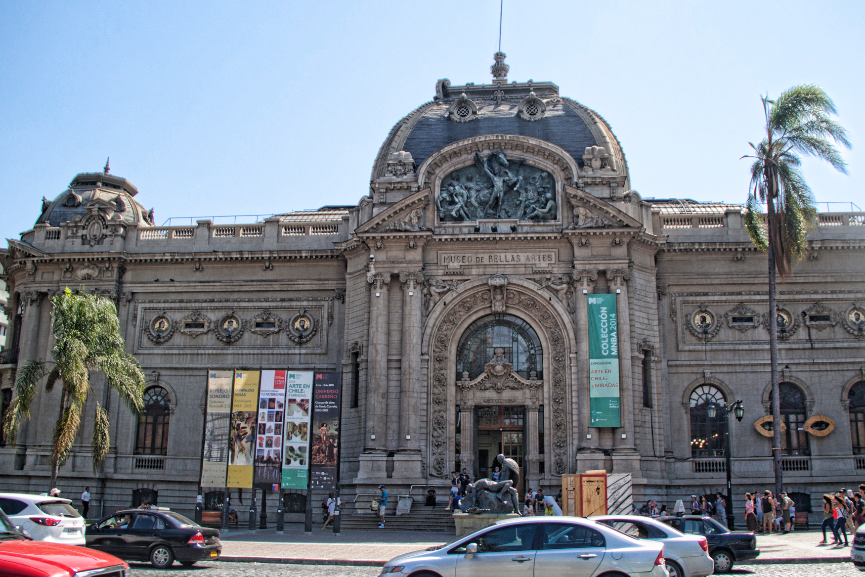 Beaux-arts style and is situated in the Parque Forestal of Santiago, Chile